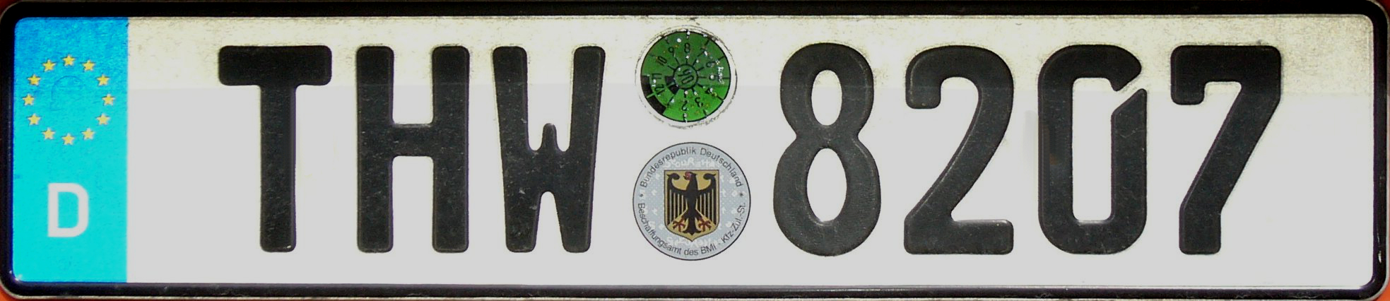 License plate of a street vehicle of the Bundesanstalt Technisches Hilfswerk, Germany